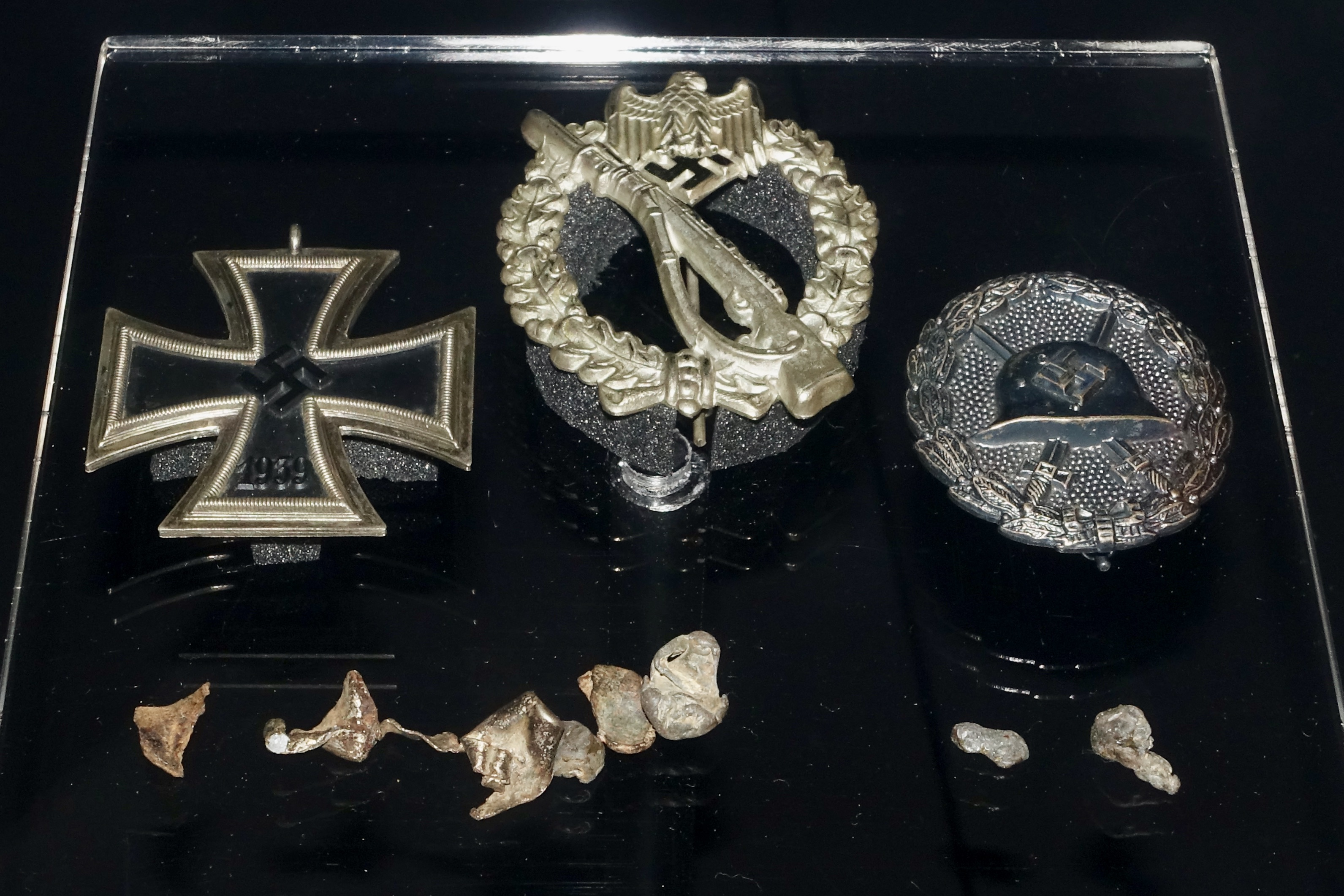 Photo taken on February 25, 2020 at the World War II exhibition in the |Norwegian Armed Forces Museum (Forsvarsmuseet) in Oslo, Norway, showing: German Iron Cross (German: Eisernes Kreuz) German Infantry Assault Badge (Infanterie-Sturmabzeichen), Silver, awarded to infantry soldiers that took part in at least three infantry assaults or three armed reconnaissance operations, engaged in hand-to-hand combat in an assault position, or participated on three separate days in the reestablishment of combat positions German Wound Badge (Verwundetenabzeichen), Black (3rd class, representing Iron), for those wounded once or twice by hostile action Shrapnel removed from German soldier Bernhard Höfker in Norway 1940